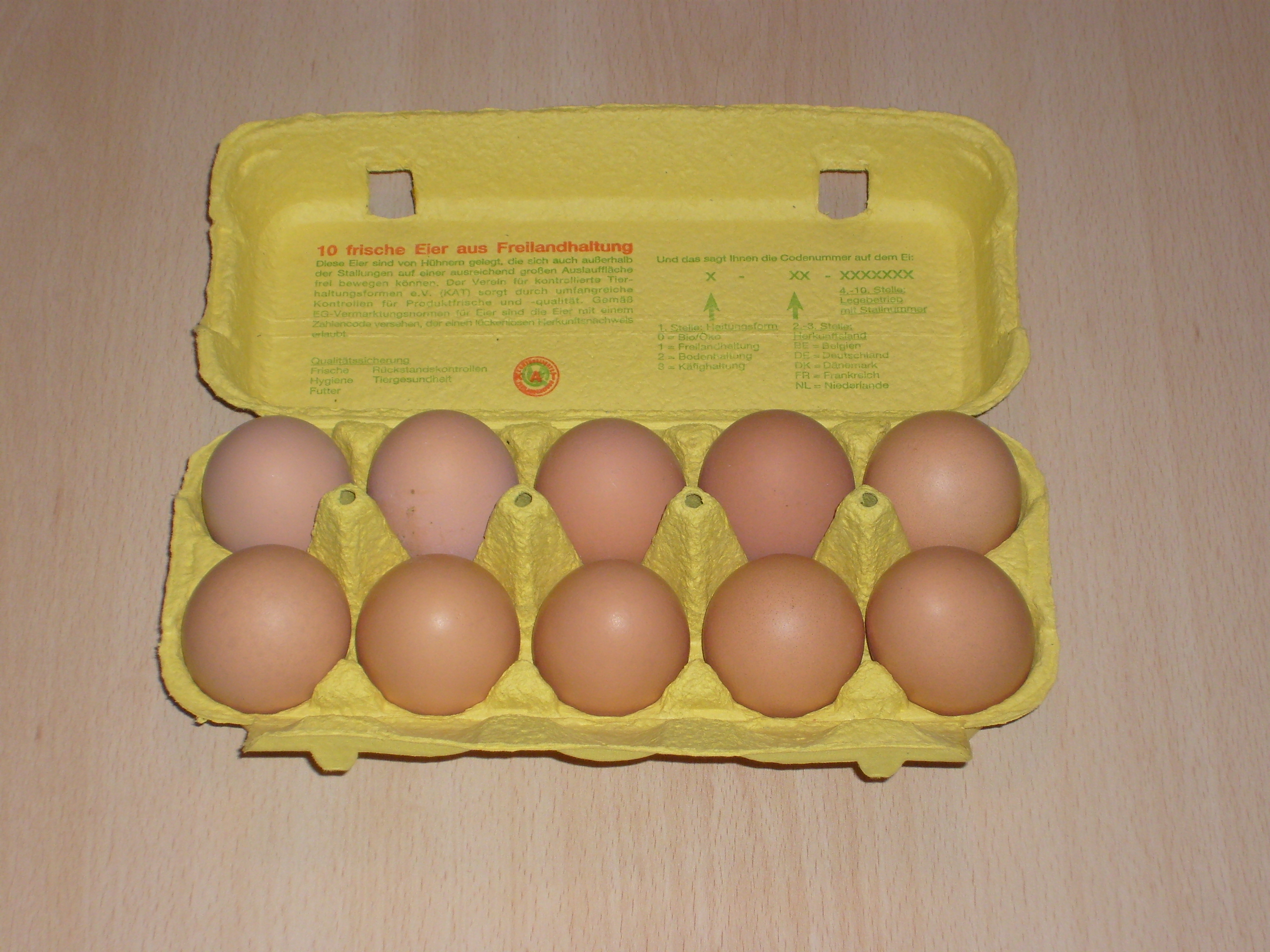 A couple of eggs in a pulp carton.